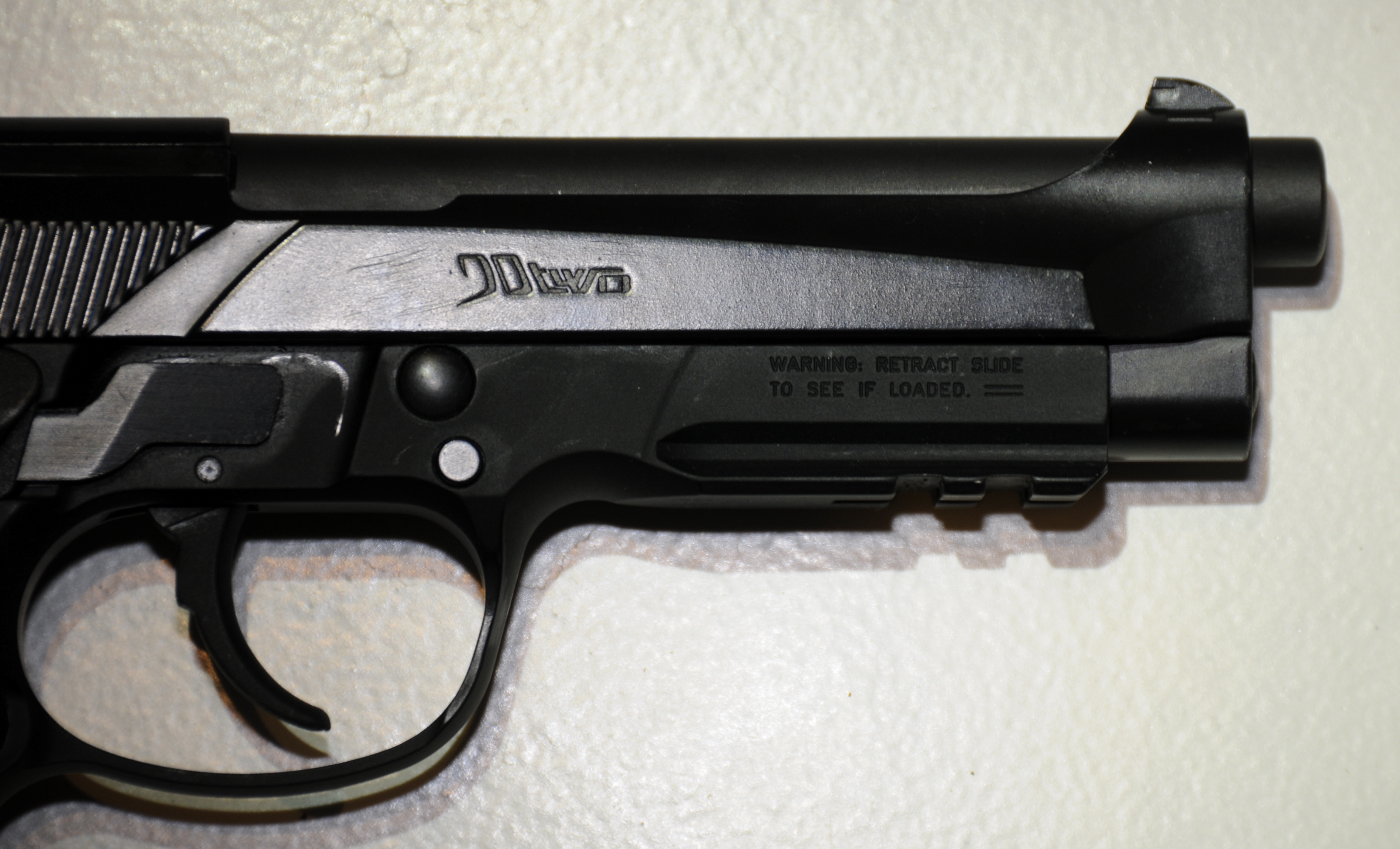 Side shot of the Picatinny rail on the Beretta 90TWO.